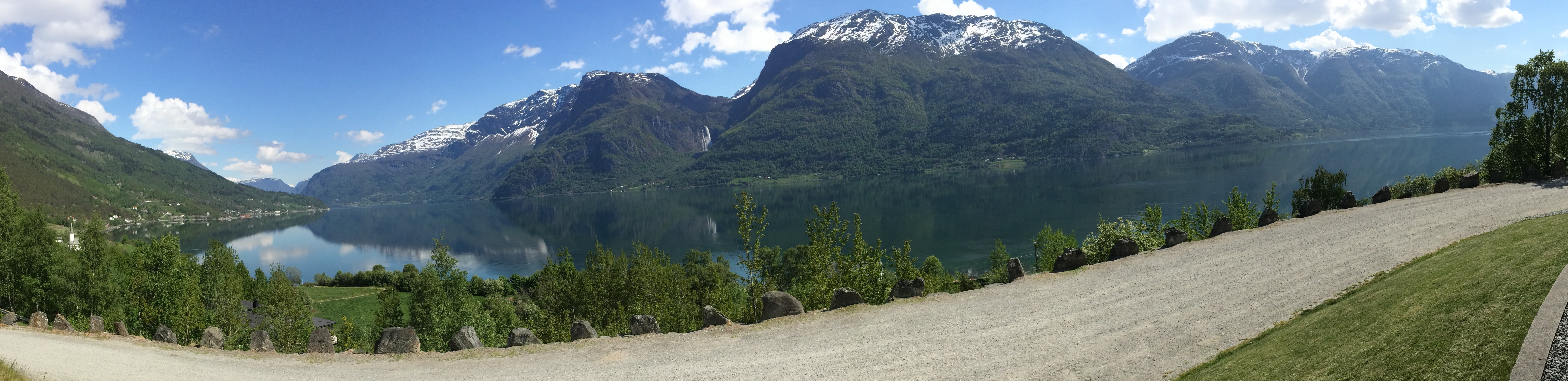 Lustrafjorden, part of Sognefjorden, Norway, with waterfall Feigumfossen (Feigefossen) on other side. May 2014. (iPhone panoramic photo, distortion may occur in details and continuity.)